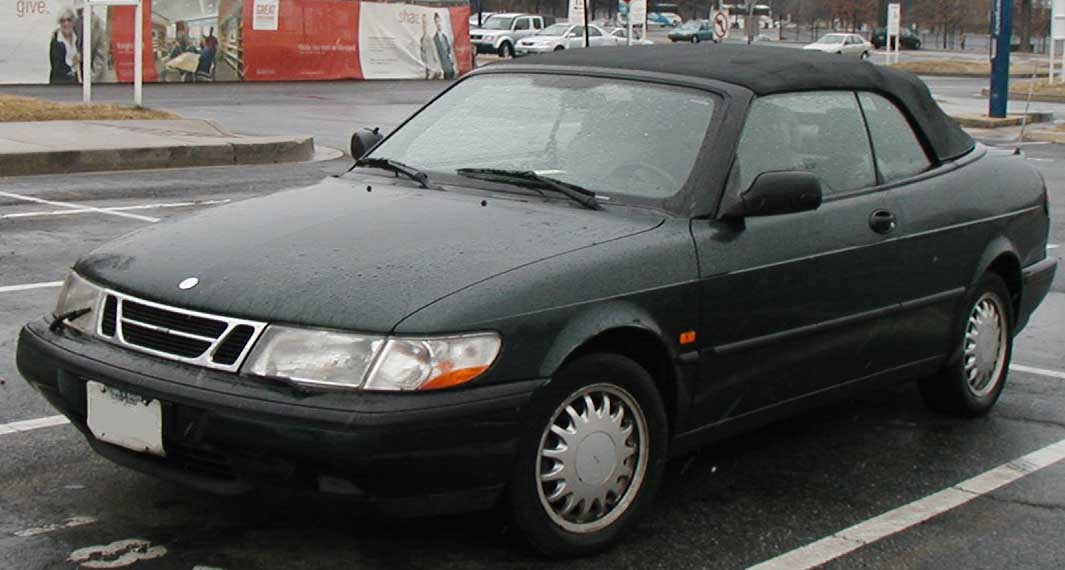 1994-1998 Saab 900 photographed in College Park, Maryland, USA.